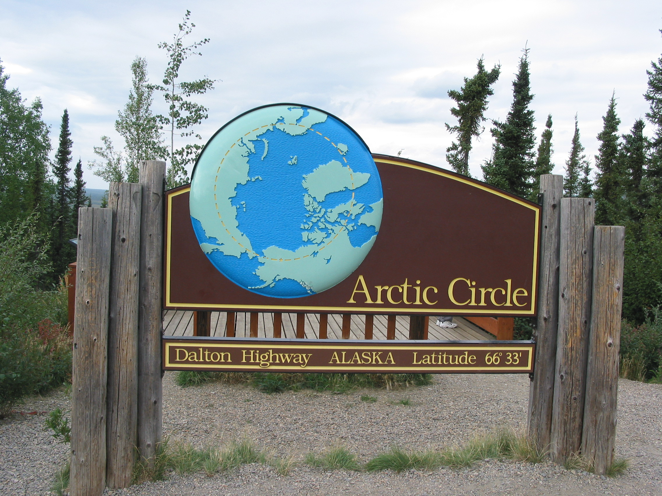 This is a road sign marking the location of the Arctic Circle along the Dalton Highway.